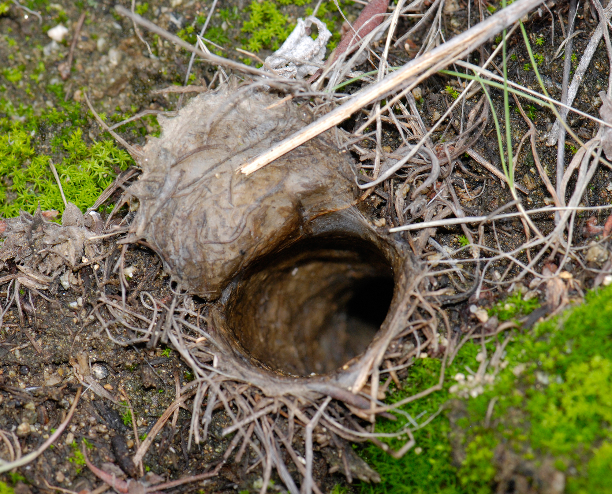 Trapdoor of spider Aptostichus sp. (Cyrtaucheniidae).